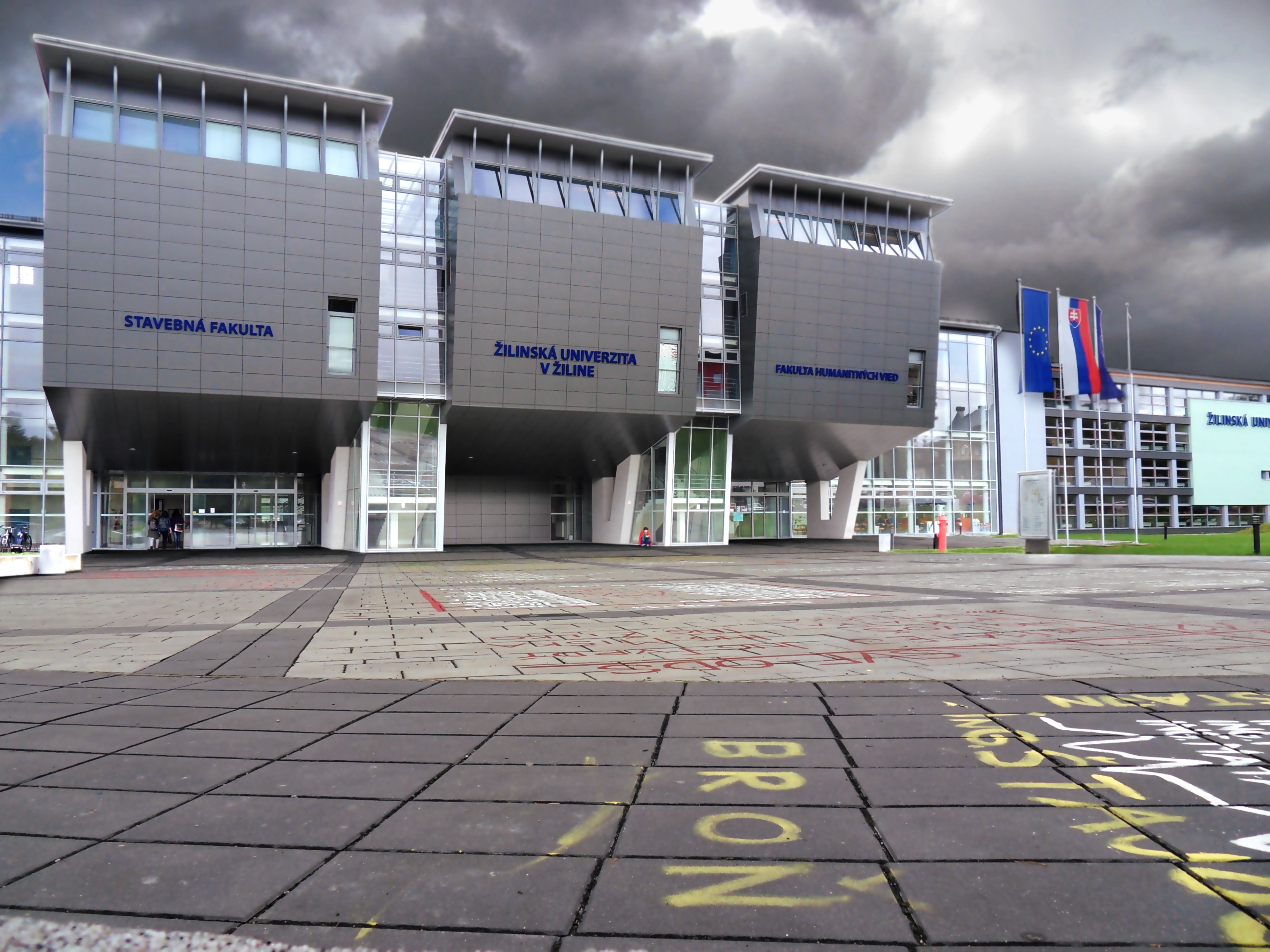 Picture from the front of the main building. Žilinská univerzita. Žilina, Slovakia.